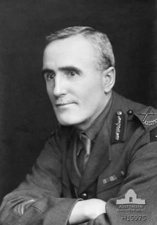 Portrait of Brigadier General T. Griffiths CMG CBE DSO of AIF Overseas Headquarters.